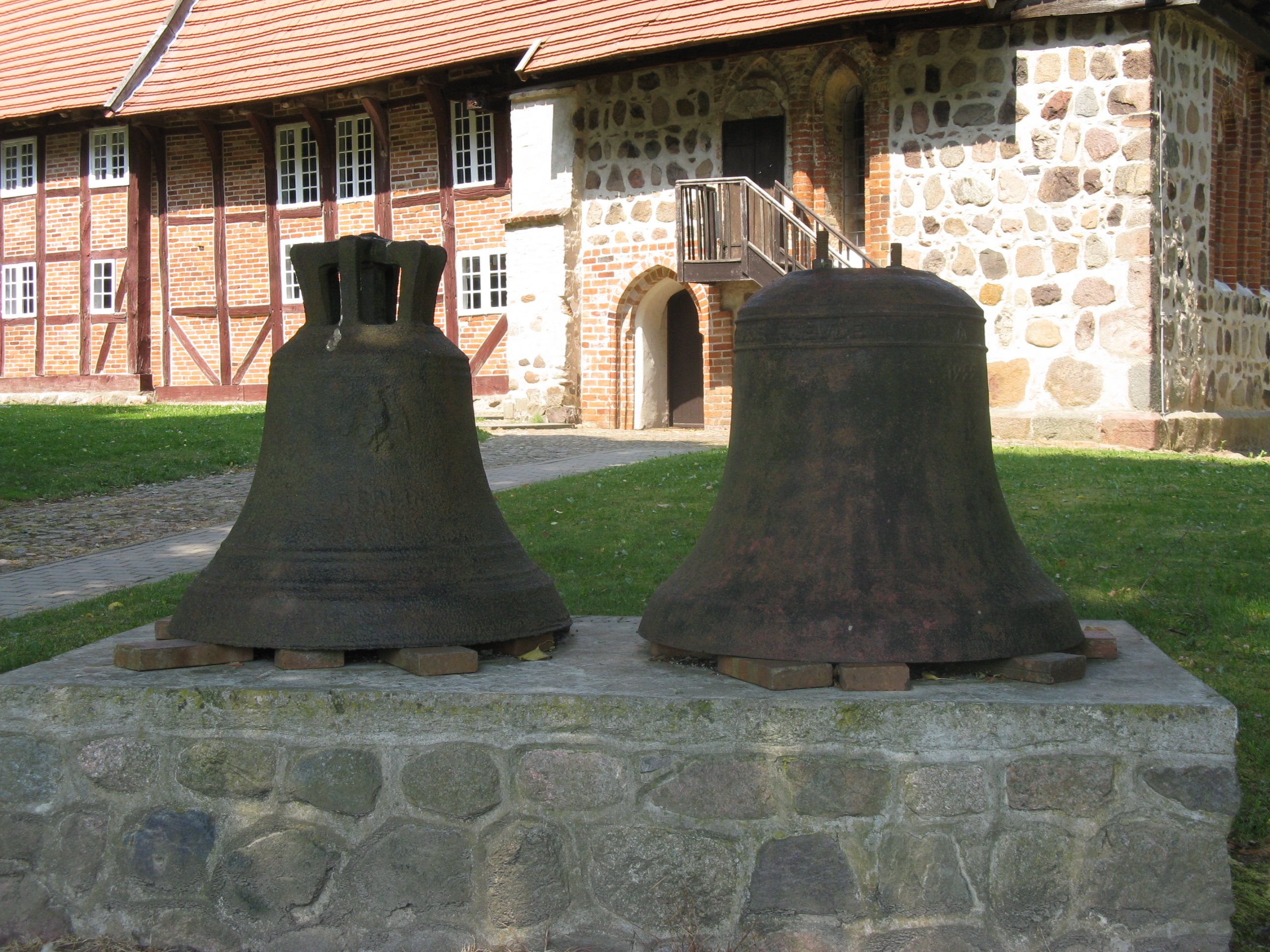 Church of Lassahn, Mecklenburg-Vorpommern, Germany - former bells